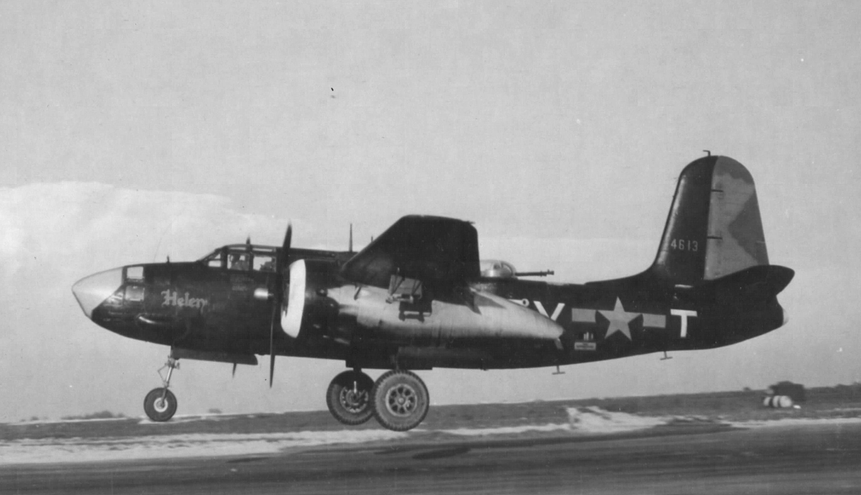 "Helen" Douglas A-20K-15-DO Havoc s/n 44-613 645th BS, 410th BG, 9th AF This aircraft looks to be painted black and has flash suppressors on the turret guns...night intruder?